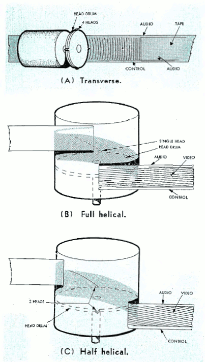 Diagrams showing the difference between helical-scan and transverse-scan recording techniques used in early video tape recorders.